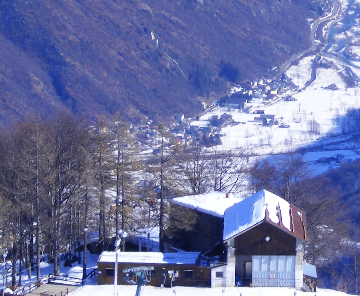 Alpe Cialma (Locana, TO, Italy).